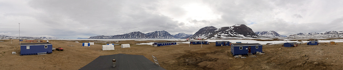 ZERO Zackenberg Ecological Research Operations (aka Zackenberg Research Station)